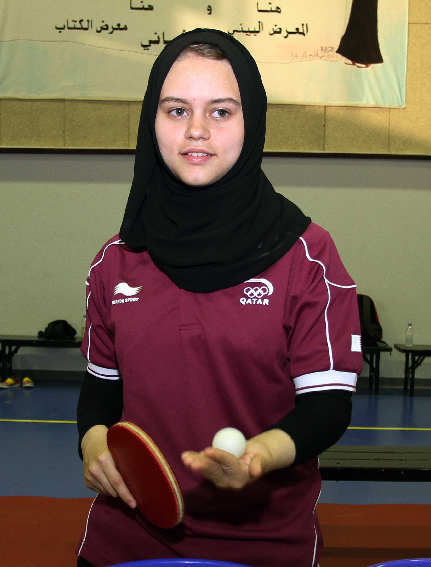 Qatar's woman Olympian table tennis player Aya Majdi during a training session in Doha. Picture by Vinod Divakaran